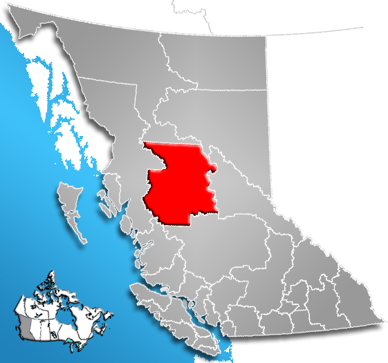 Location of Regional District of Bulkley-Nechako, British Columbia